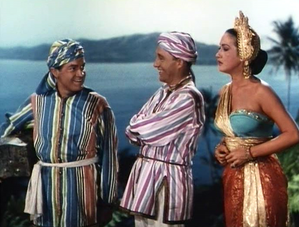 Cropped screenshot of Bob Hope, Bing Crosby and Dorothy Lamour from the film Road to Bali.